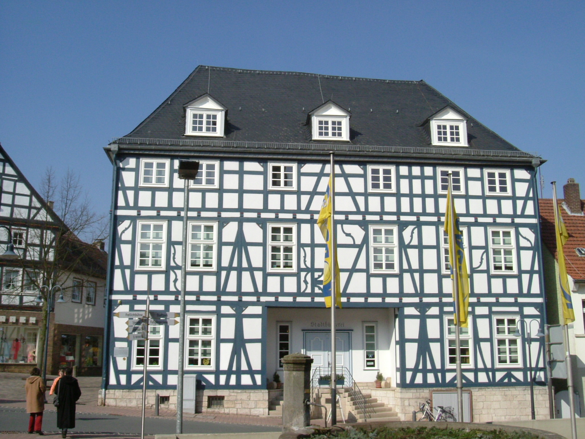 Korbach, Germany. Town library. Author: Peter Kaboldy, 03.2007.